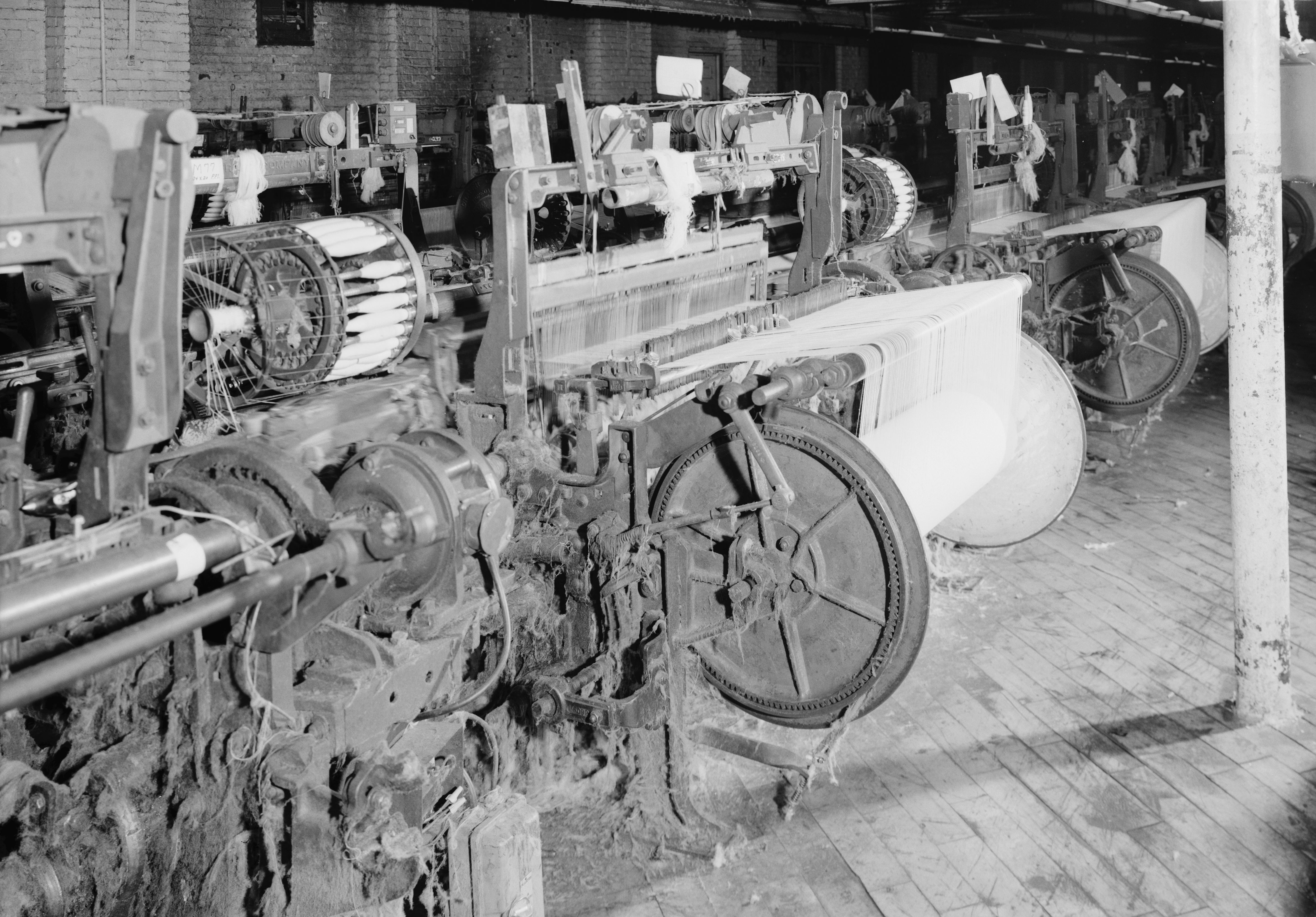 Draper Looms, Bamberg Cotton Mill, Bamberg, South Carolina